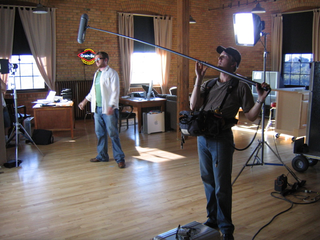 This is production sound mixer Lance Lundstrom in action.